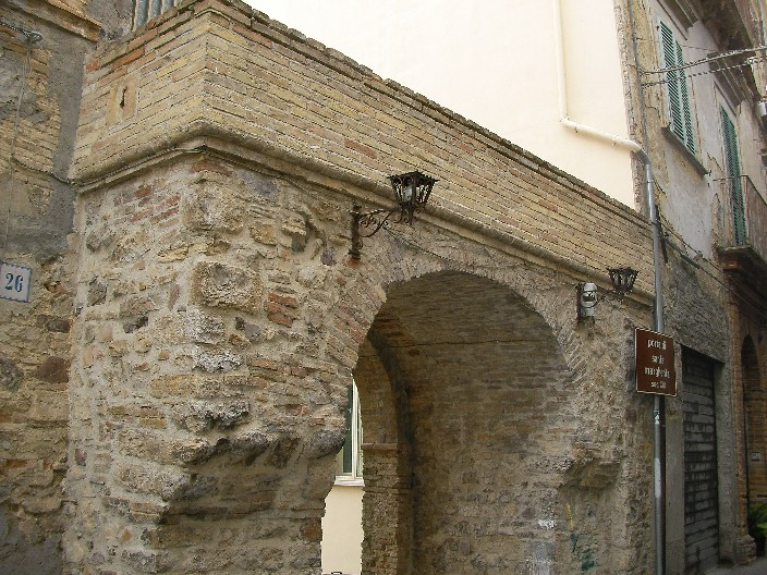 Porta Santa Margerita to Atessa